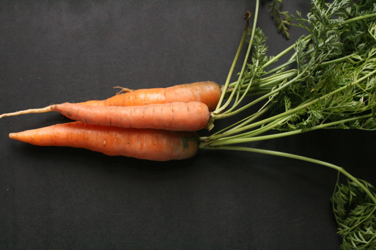 1/4 lb carrots produced through community-supported agriculture